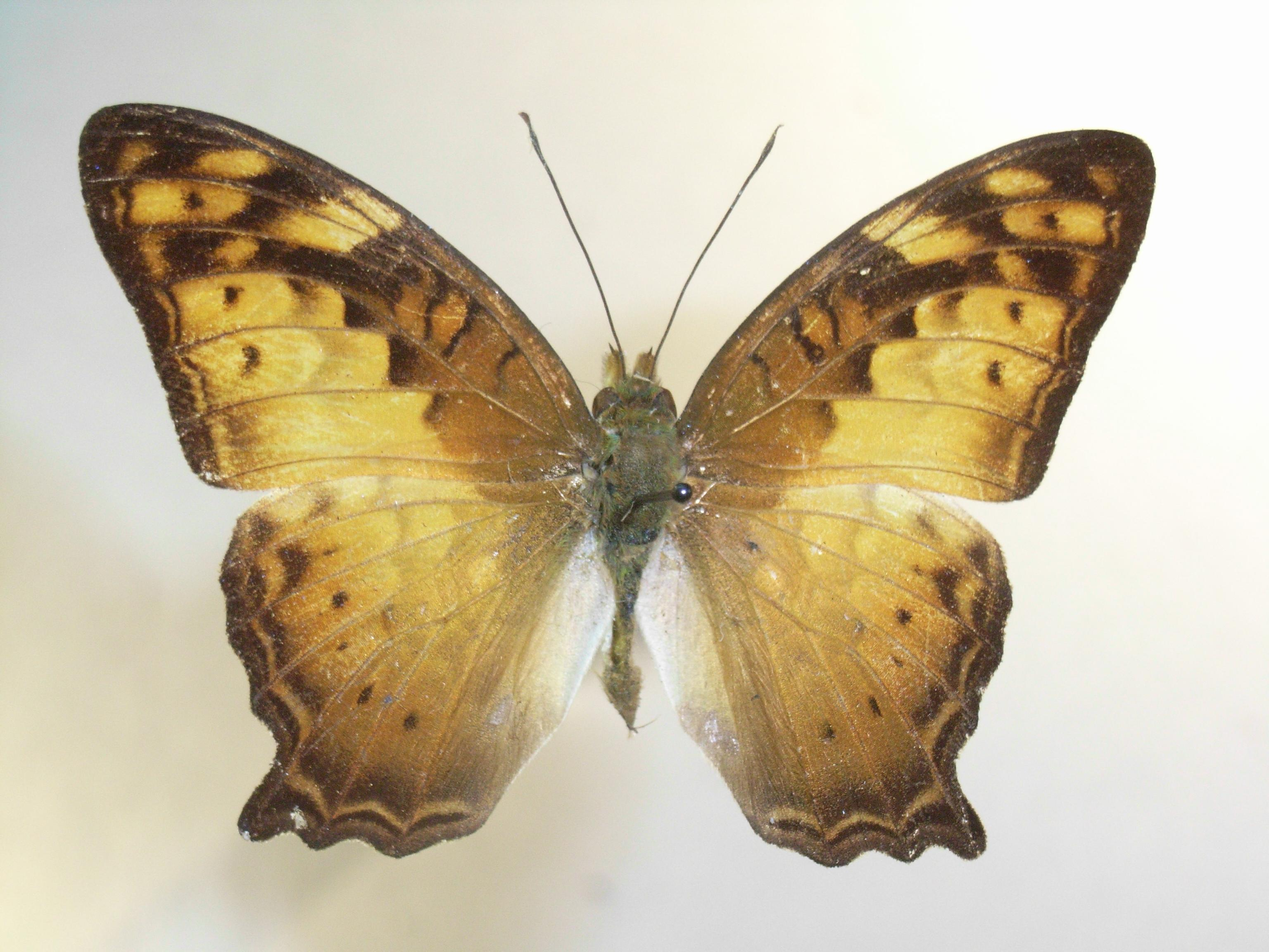 Vagransegistamacromalayana:Heliconiinae:Nymphalidae